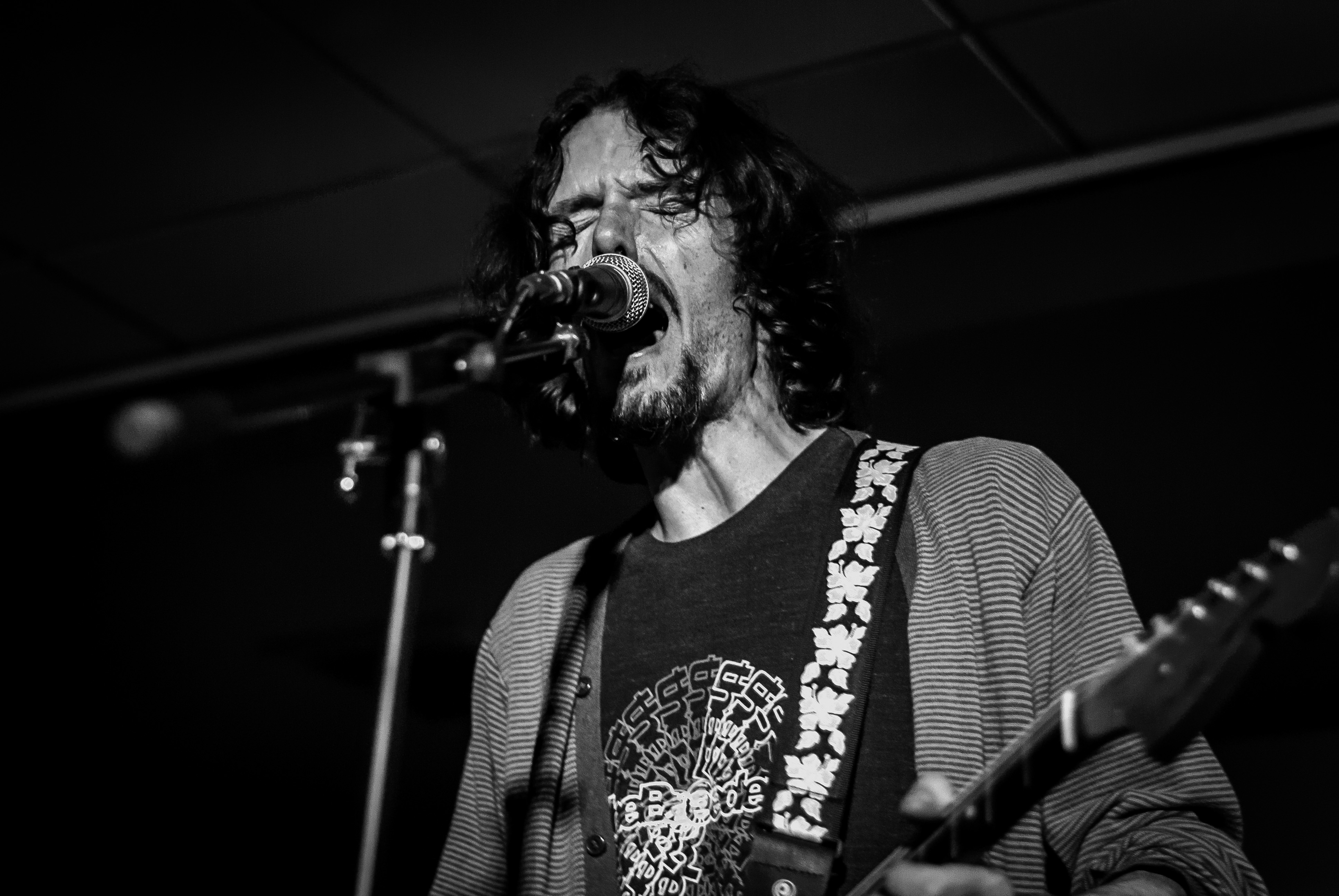 live photo